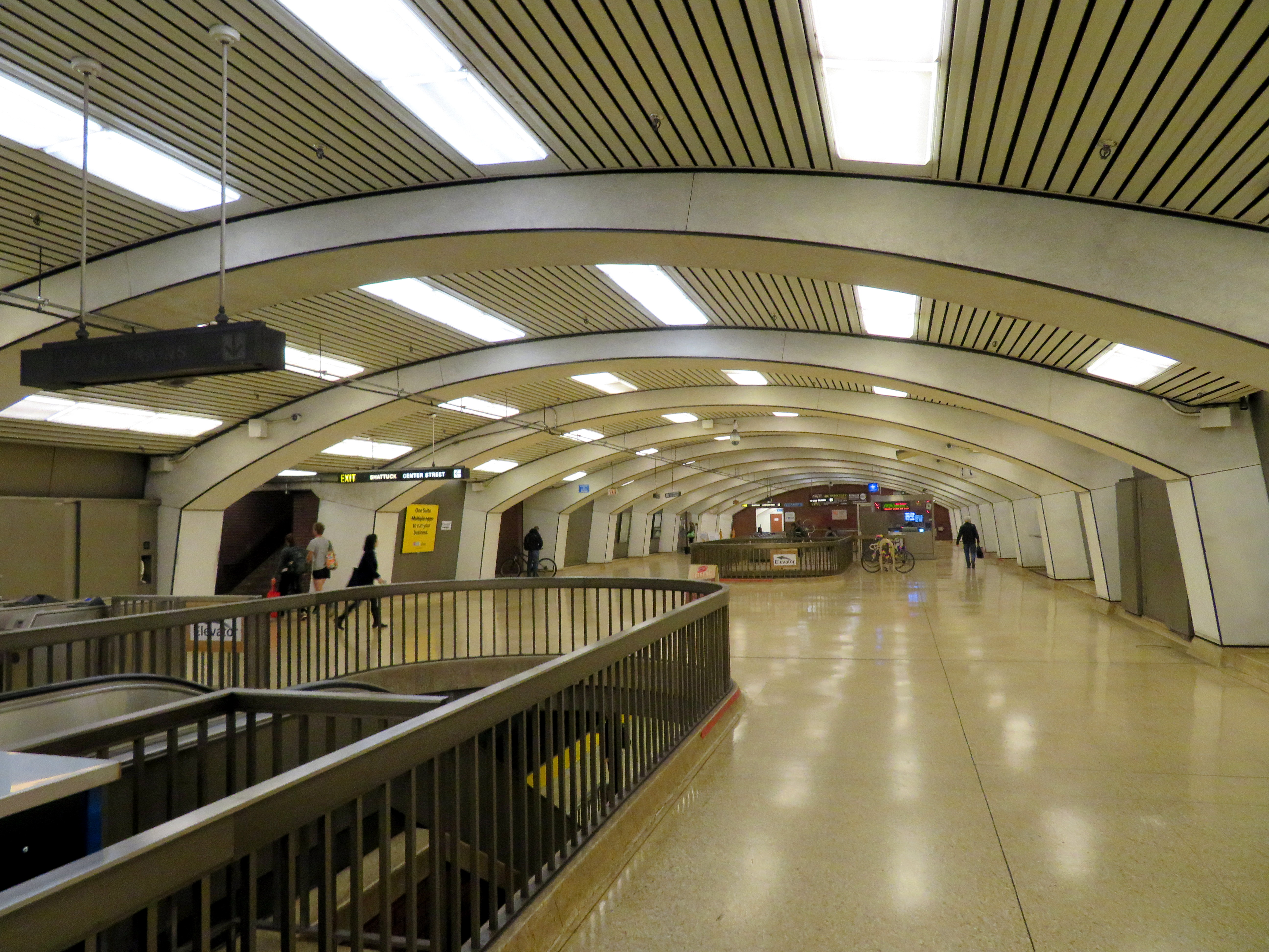 Mezzanine level of Downtown Berkeley station in February 2018